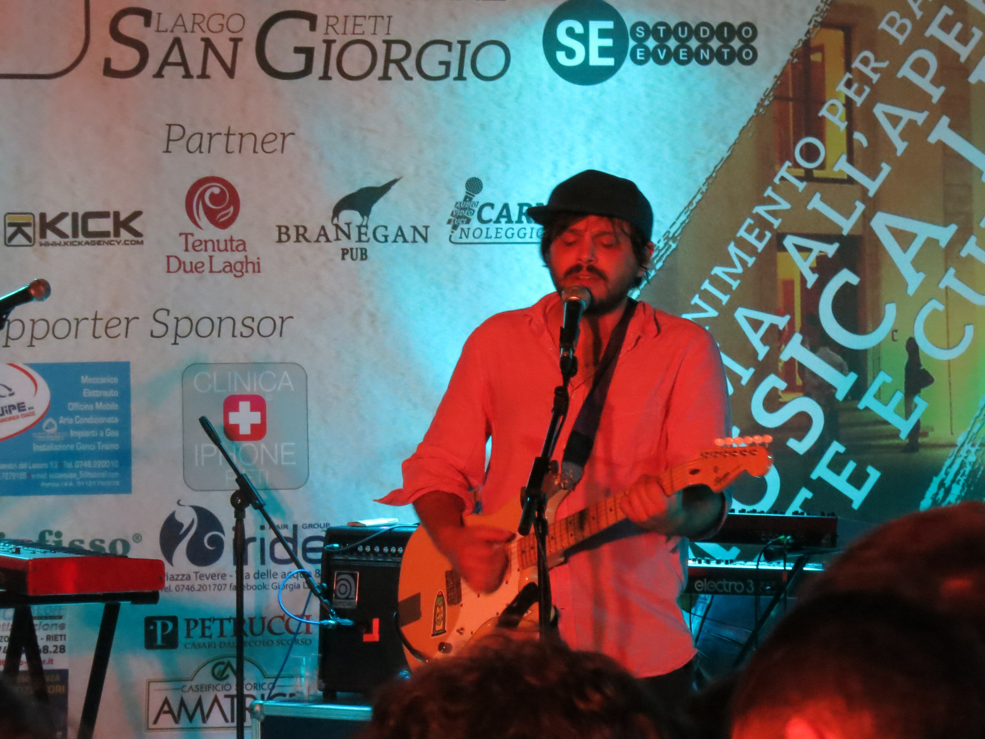 Calcutta singing in Rieti at Saint George square, during the tour in support of his last album Mainstream